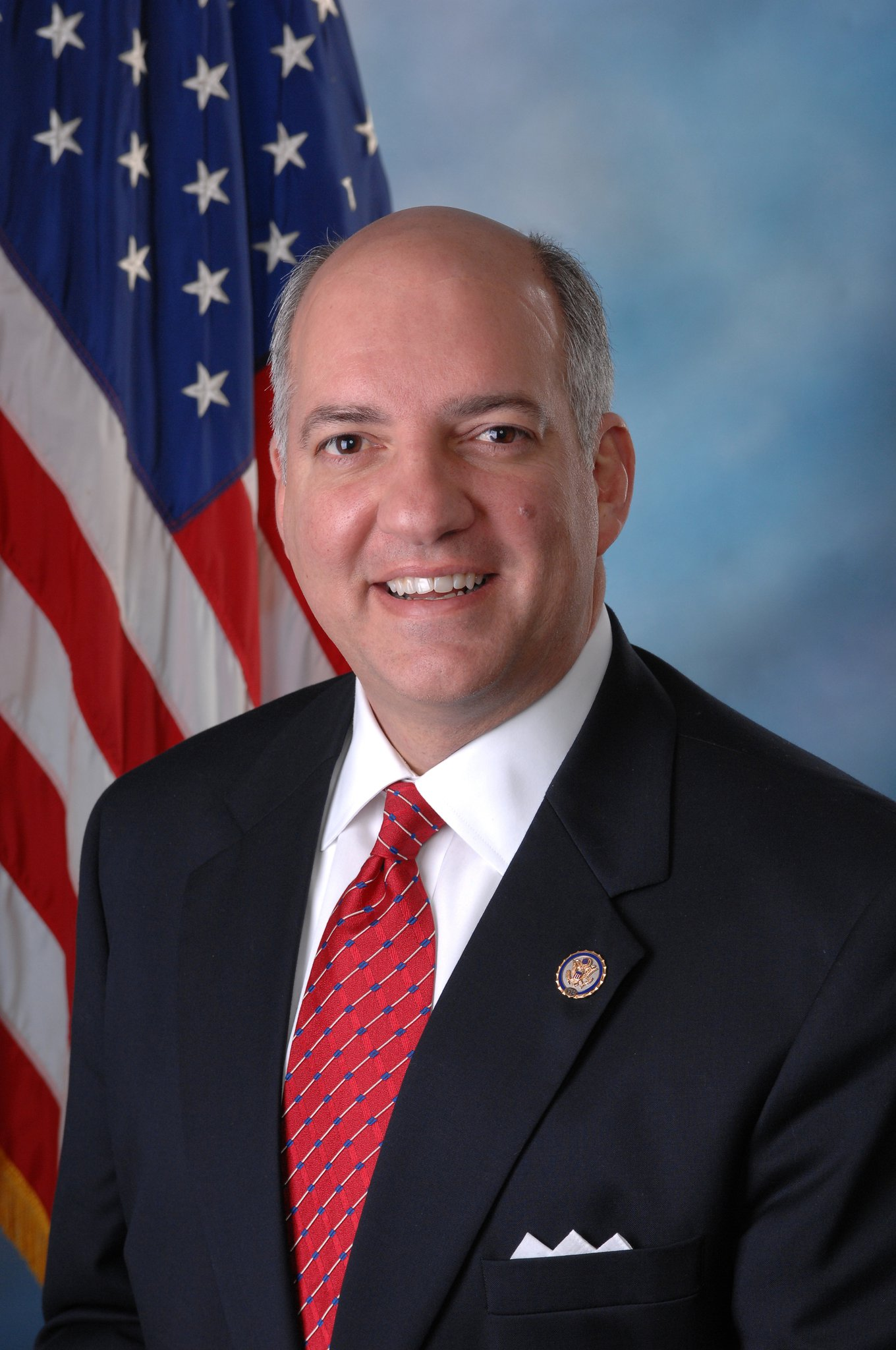 Official portrait of US Rep. Steve Southerland of Florida.